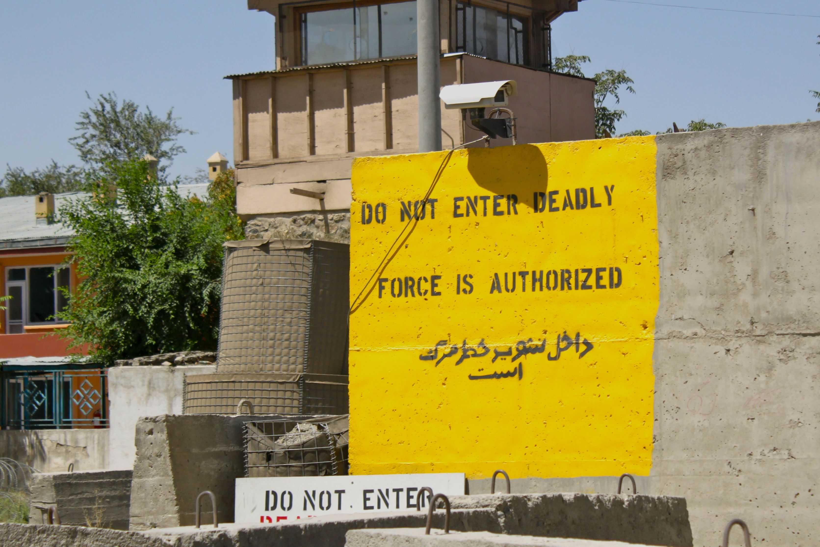 The following is the author's description of the photograph quoted directly from the photograph's Flickr page. "I didn't enter, btw. "